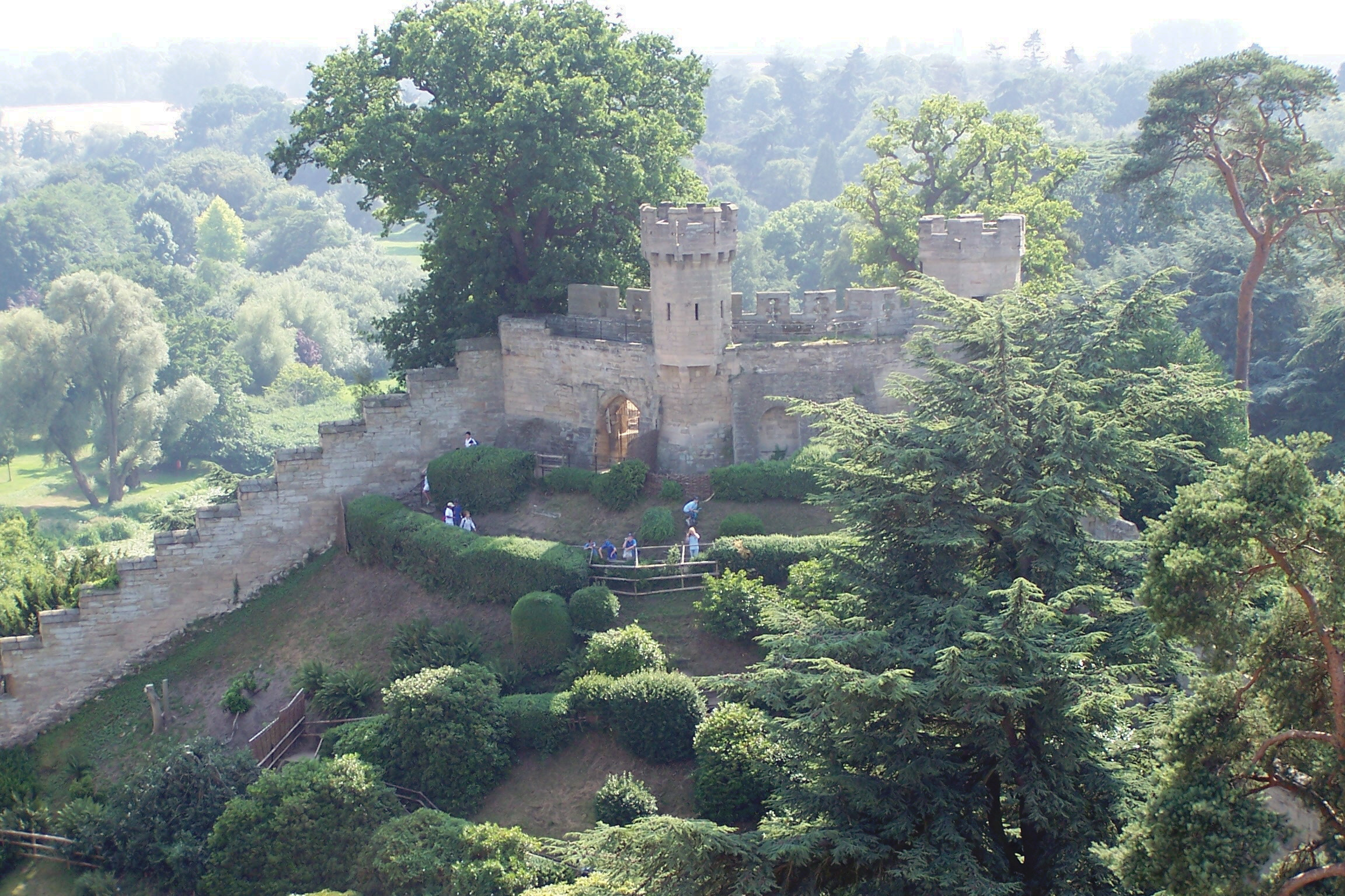 Warwick Castle, «Ethelfleda's Mound», where the oldest fortifications on the site were, seen from Guy's Tower.